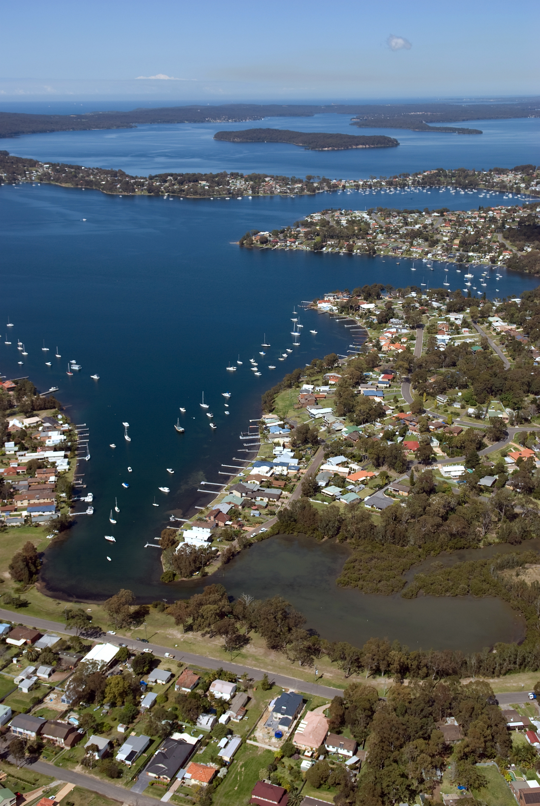 Aerial view looking south over the western shore of Lake Macquarie, New South Wales